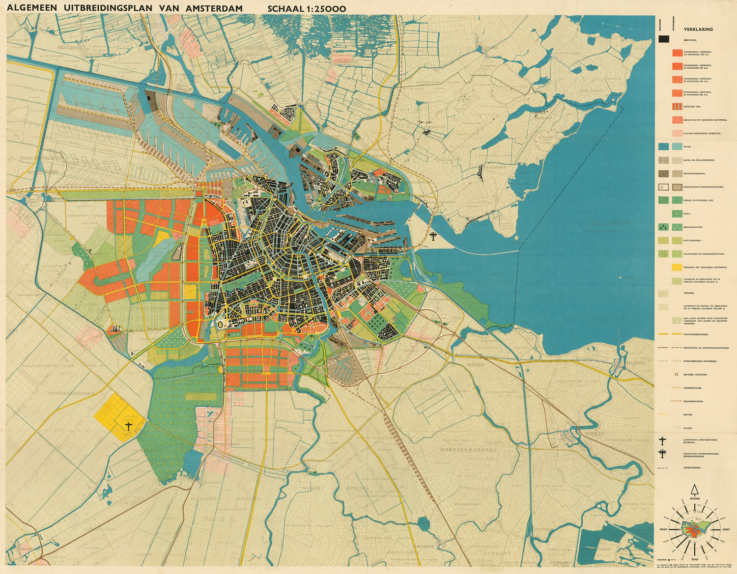 C. van Eesteren en Th. K. van Lohuizen. Algemeen Uitbreidingsplan Amsterdam, 1934. Collectie NAi, EEST 1-84 Het AUP van Amsterdam is een stadsuitbreiding volgens de principes van de moderne stedenbouw en is gebaseerd op een scheiding van wonen, werken, verkeer en recreatie. De groenstructuur is hier één van de belangrijkere structuren van het ontwerp. C. van Eesteren and Th.K. van Lohuizen, General Extension Plan for Amsterdam, 1934. NAI Collection, EEST 1-84 The General Extension Plan for Amsterdam (Algemeen Uitbreidingsplan, or AUP) is an urban expansion plan that followed the principles of modern town planning and is based on a separation of living, work, traffic and recreation. The green spaces serve as one of the design’s more important structures.